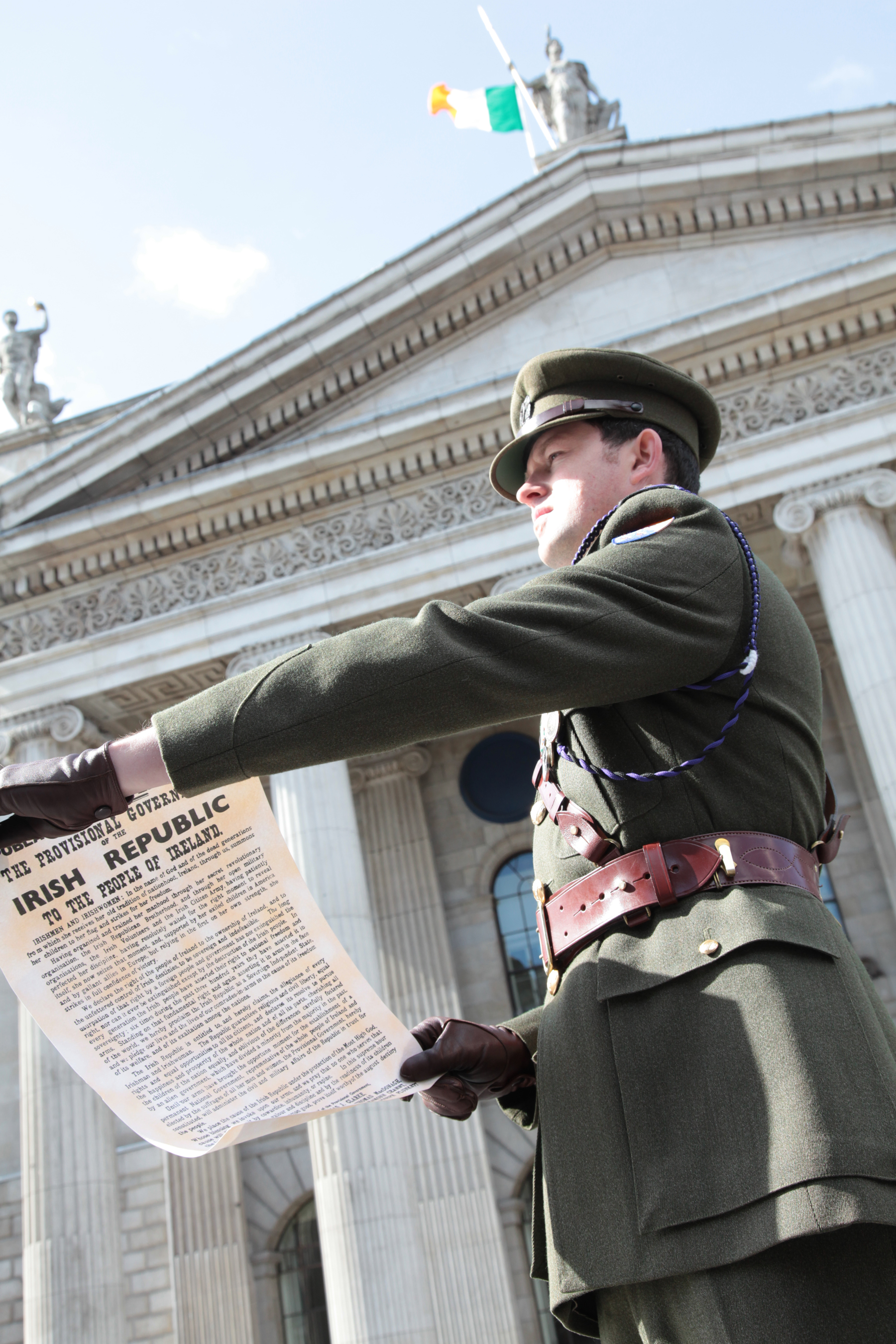 Capt Eoin O Sullivan reads the Proclamation outside the GPO on Easter Sunday 2010